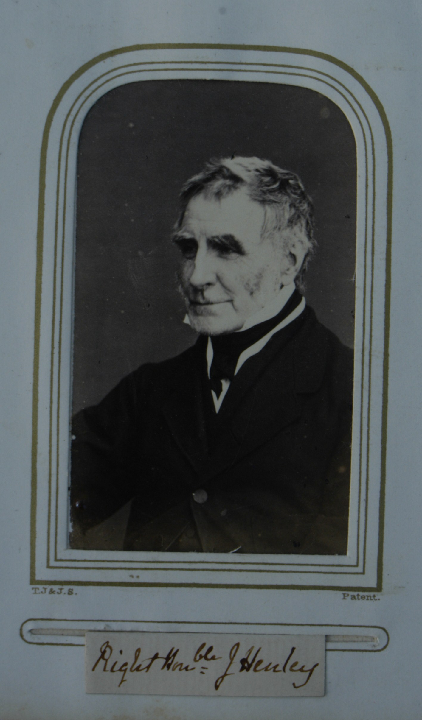 my photo (R. de SalisRodolph (talk) 10:58, 14 August 2013 (UTC)) of a photo of Joseph Warner Henley PC, DL, JP (1793 – 1884). Other information photo at least 130 years old.